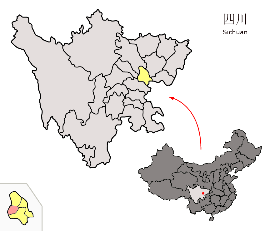 Location of Daying County (pink) and Suining Prefecture (yellow) within Sichuan province of China Map drawn in october 2007 using various sources, mainly : Sichuan province administrative regions GIS data: 1:1M, County level, 1990 Sichuan Counties map from